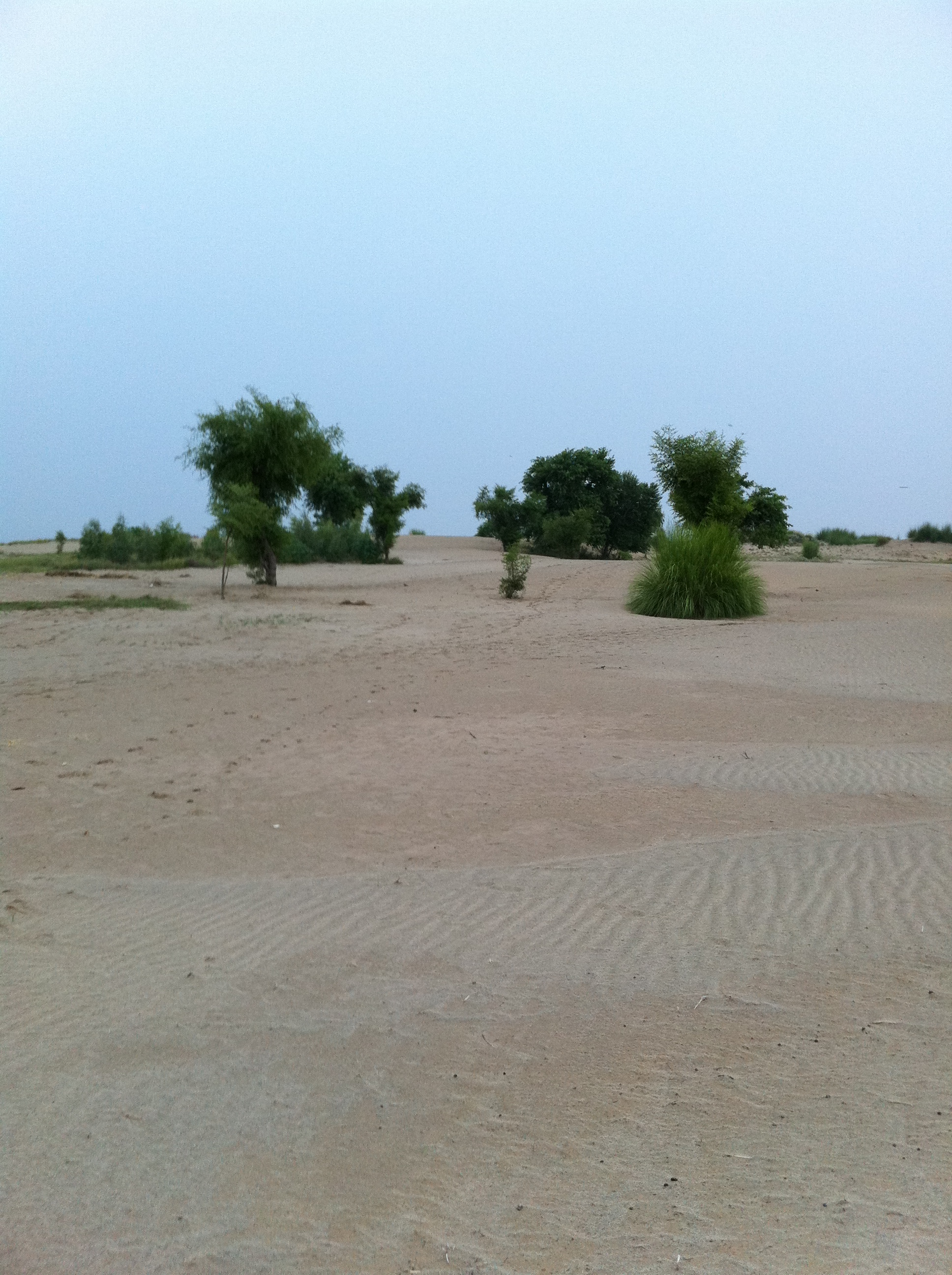 Thal start from this village